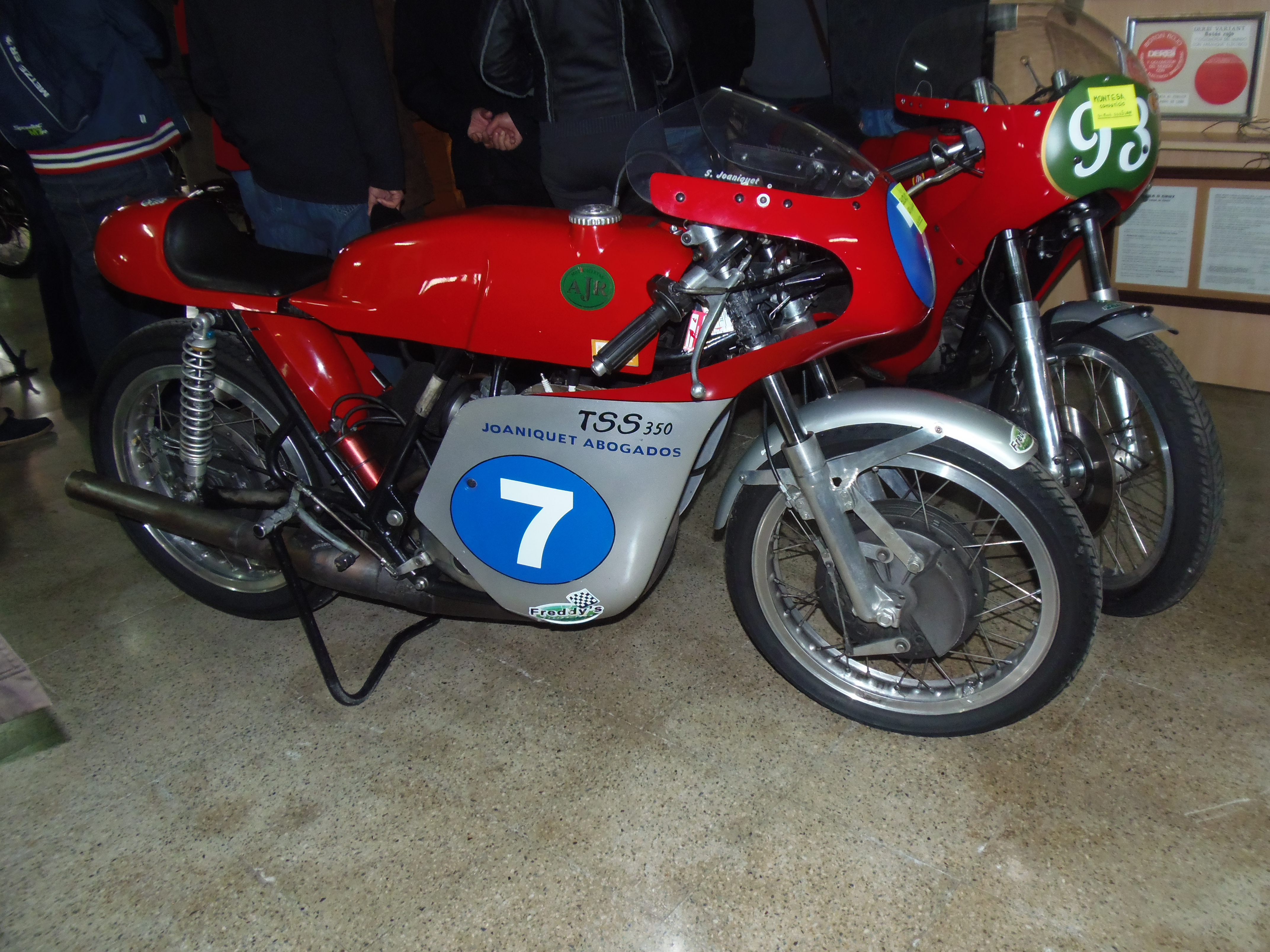 A replica of the Bultaco TSS 350, made circa 1995 by AJR. This one is owned by Freddy Sanjuan.